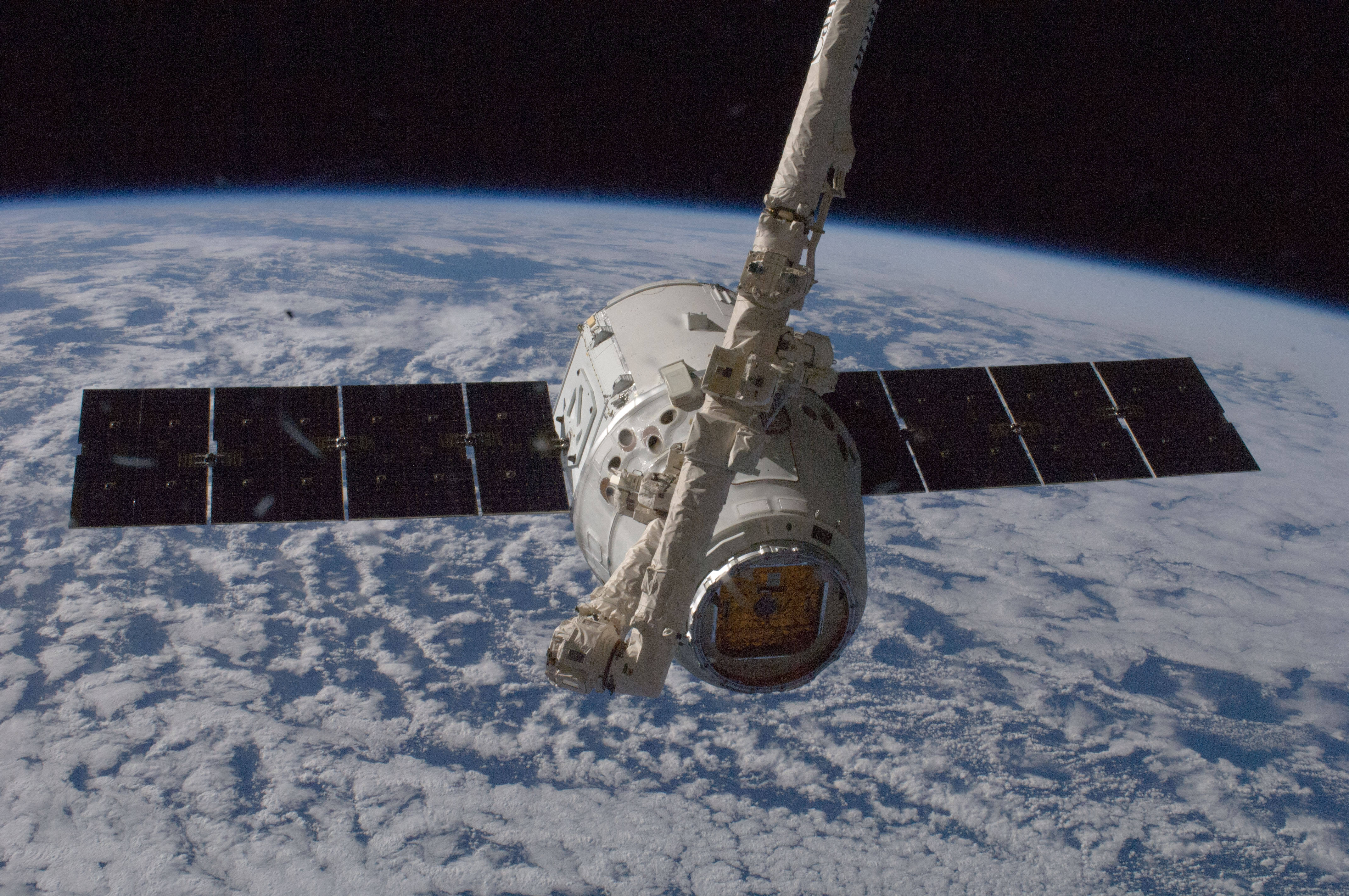 The SpaceX Dragon commercial cargo craft is grappled by the International Space Station's Canadarm2 robotic arm. Working from the robotics workstation inside the seven-windowed Cupola, Japan Aerospace Exploration Agency astronaut Aki Hoshide, Expedition 33 flight engineer, with the assistance of NASA astronaut Sunita Williams, commander, captured Dragon at 6:56 a.m. (EDT) and used the robotic arm to berth Dragon to the Earth-facing port of the Harmony node Oct. 10, 2012. Dragon is scheduled to spend 18 days attached to the station. During that time, the crew will unload 882 pounds of crew supplies, science research and hardware from the cargo craft and reload it with 1,673 pounds of cargo for return to Earth. After Dragon's mission at the station is completed, the crew will use Canadarm2 to detach Dragon from Harmony and release it for a splashdown about six hours later in the Pacific Ocean, 250 miles off the coast of southern California. Dragon launched atop a Falcon 9 rocket at 8:35 p.m. Oct. 7 from Cape Canaveral Air Force Station in Florida, beginning NASA's first contracted cargo delivery flight, designated SpaceX CRS-1, to the station.